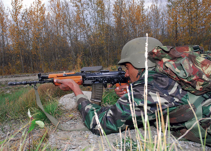 Lance Naik (Lance Cpl.) Fateh Singh, a member of the 4th Rajput Battalion, Indian Army, confirms the zero of his INSAS assault rifle during training held with members of 3rd Battalion, 21st Infantry Regiment at Donnelly Training Area.